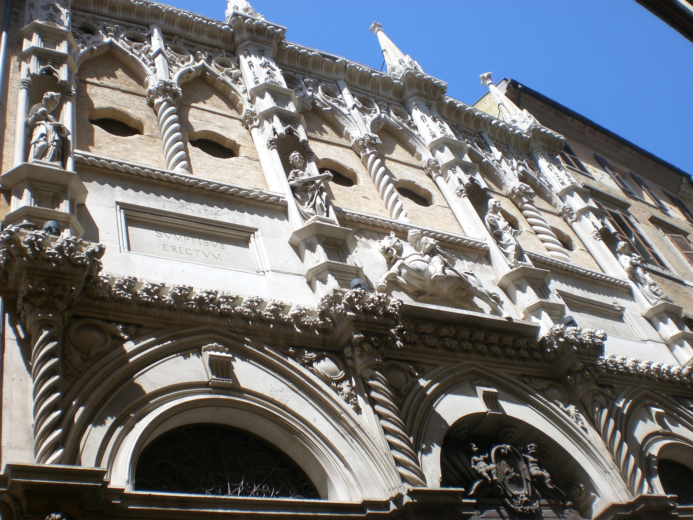 Ancona, Merchants Palace, Facade